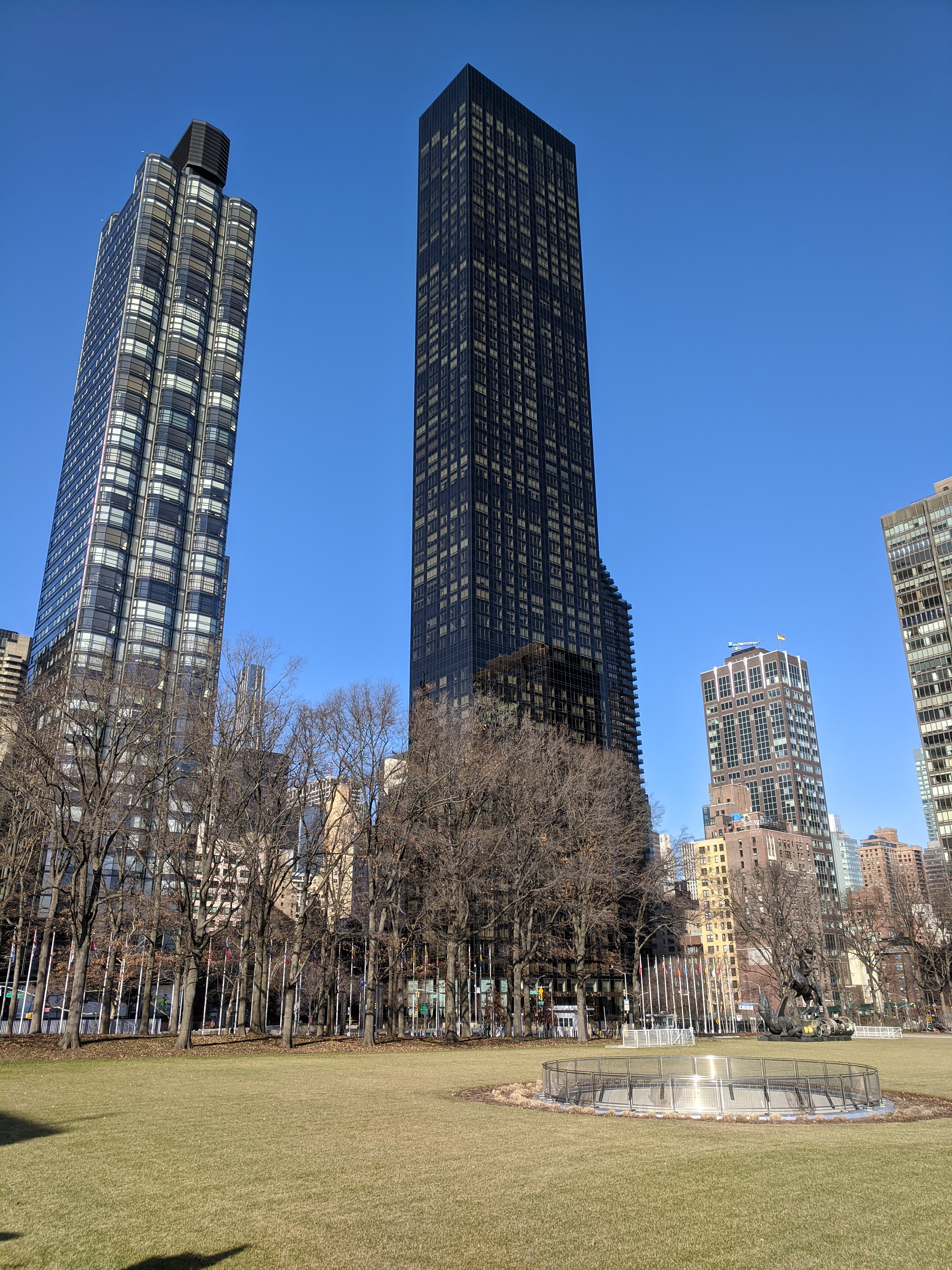 50 United Nations Plaza and Trump World Tower viewed from the grounds of the United Nations Headquarters